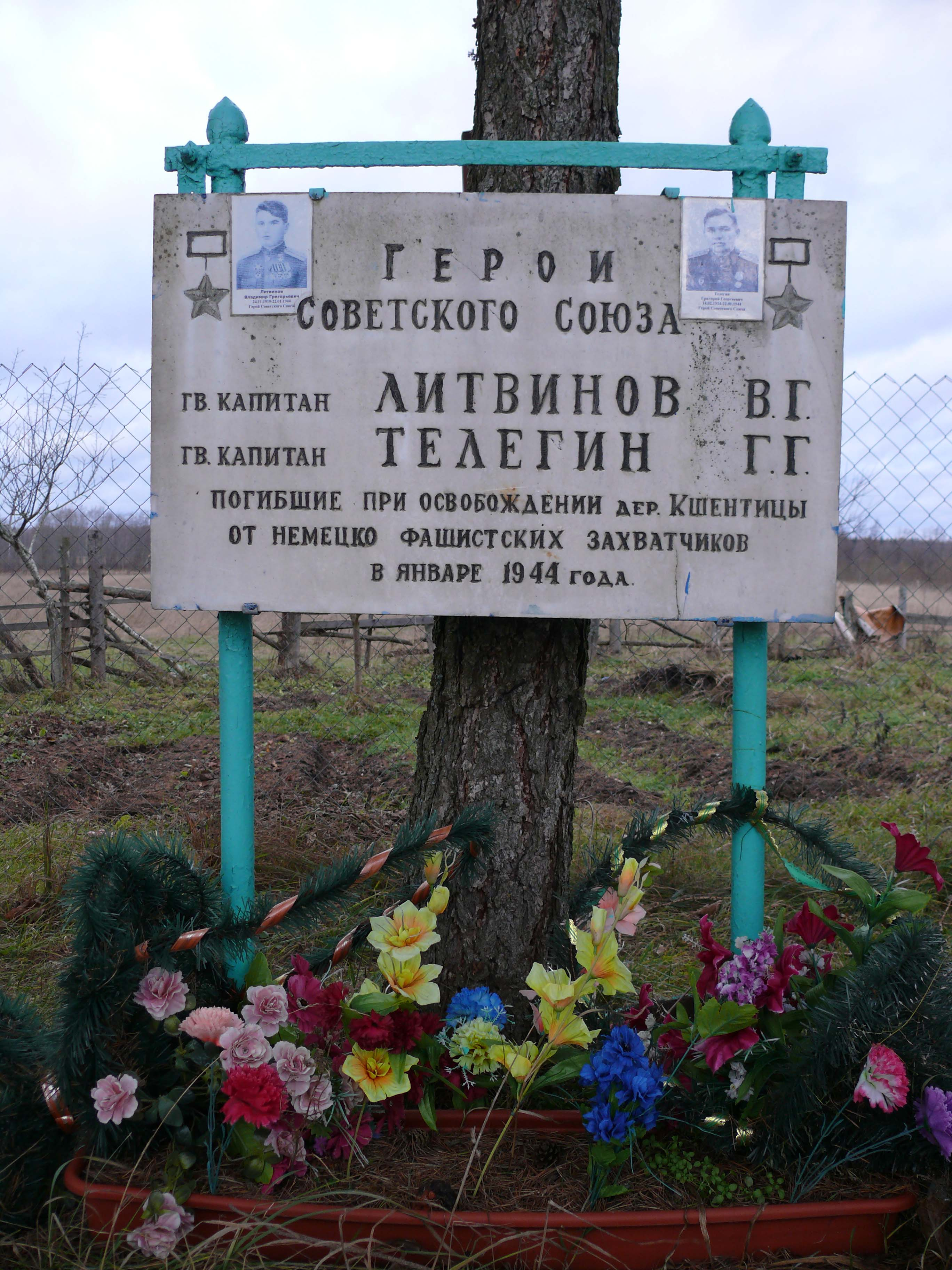 Kshentitsy village. Novgorodsky district, Novgorod oblast, Russia